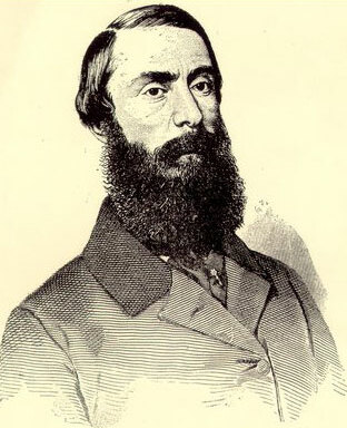 California Congressman and Attorney General Edward C. Marshall